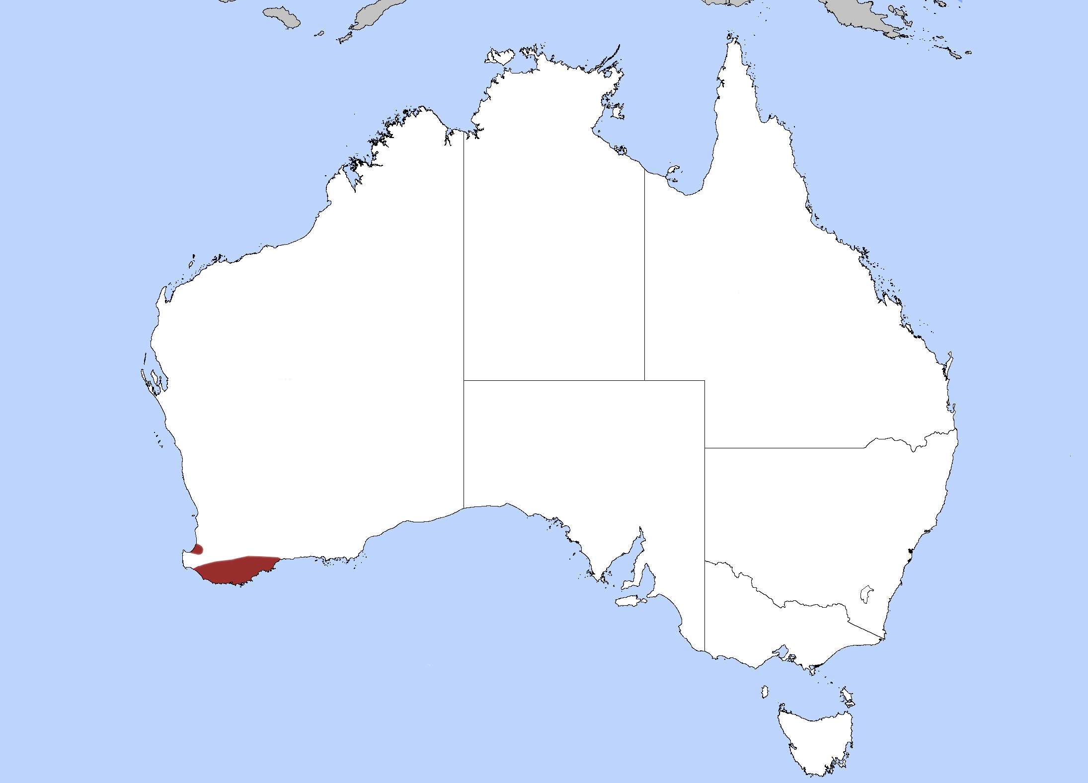 The Distribution of the Short-nosed Snake